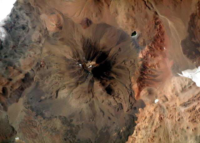 Space Shuttle ISS006 image of the Aracar stratovolcano in Argentina